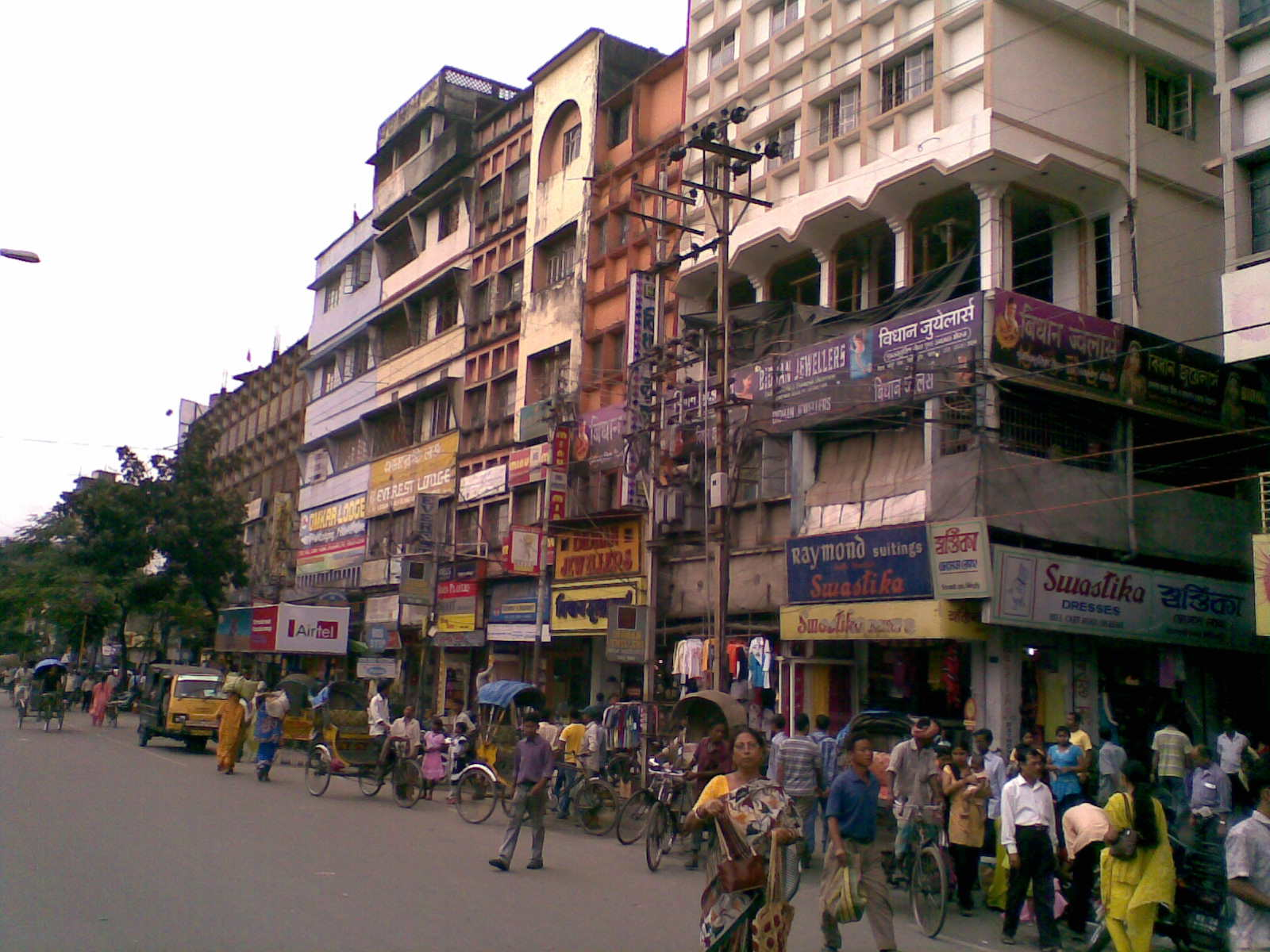 Local markets of Siliguri